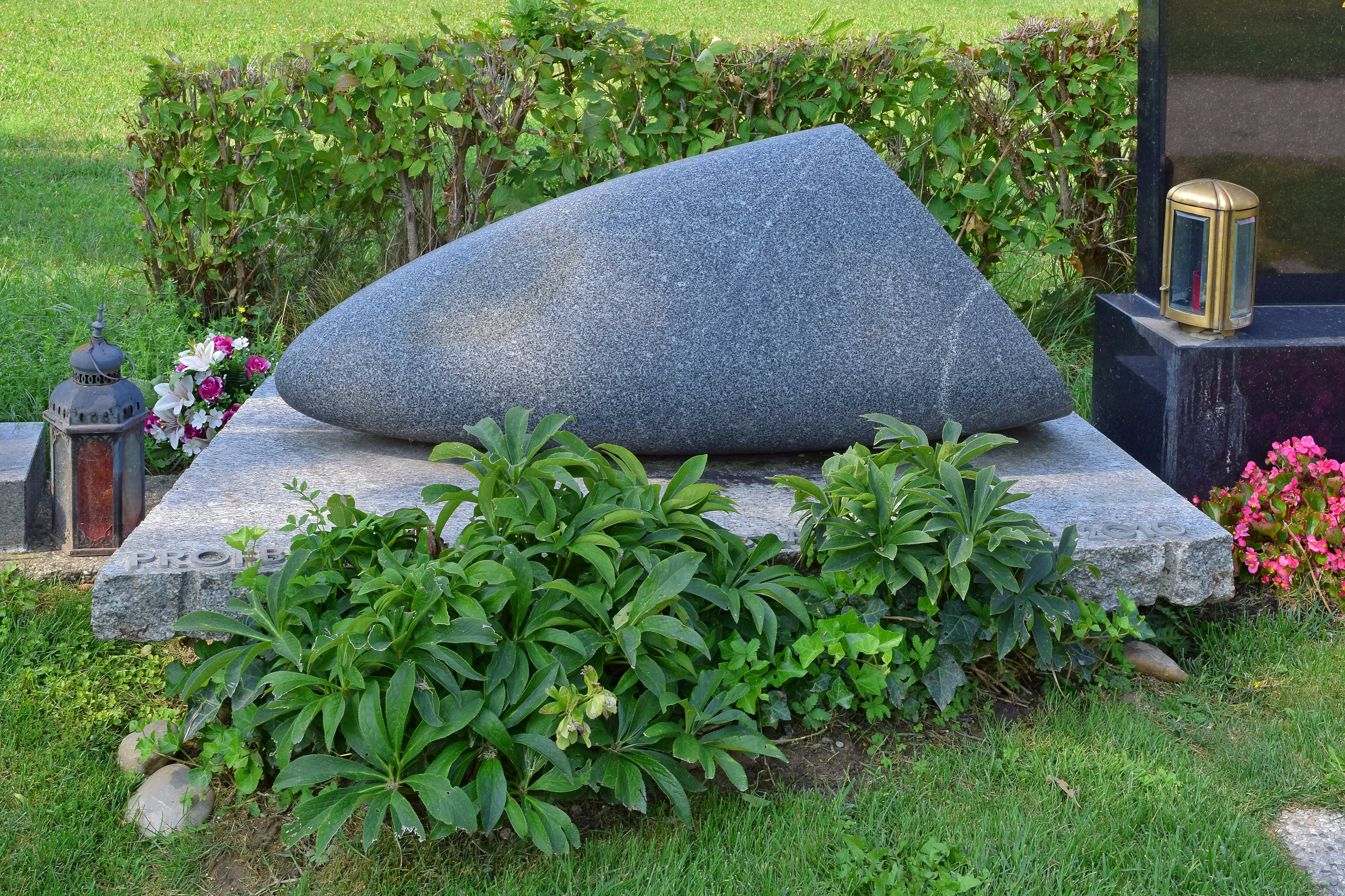 Grave of honor of the Austrian modern artist Bruno Gironcoli at the Wiener Zentralfriedhof